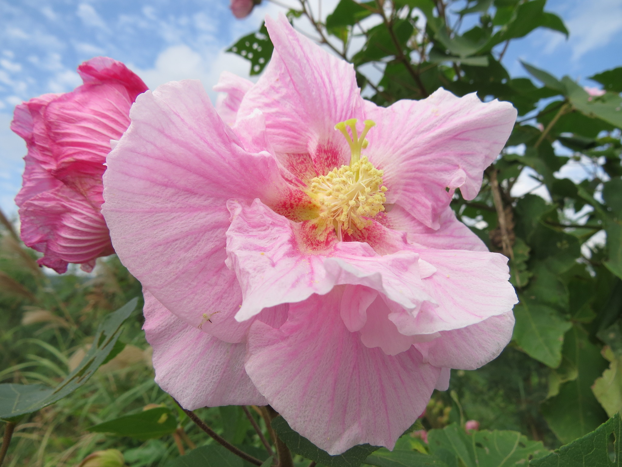 Double-flowered Hibiscus makinoi in Ishigaki Island, November 2016